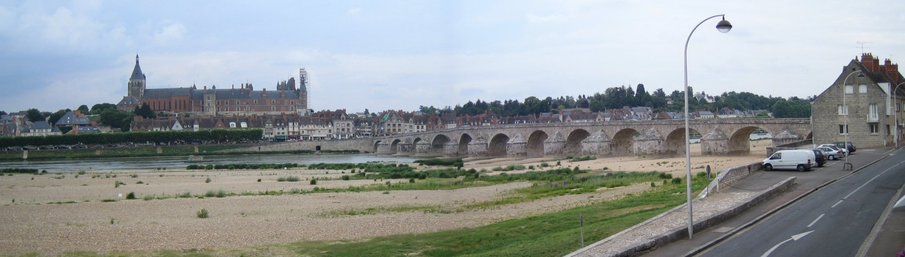 Gien, France The city with the pre-Renaissance castle and the bridge on the Loire. Photo taken by me, July 2005.